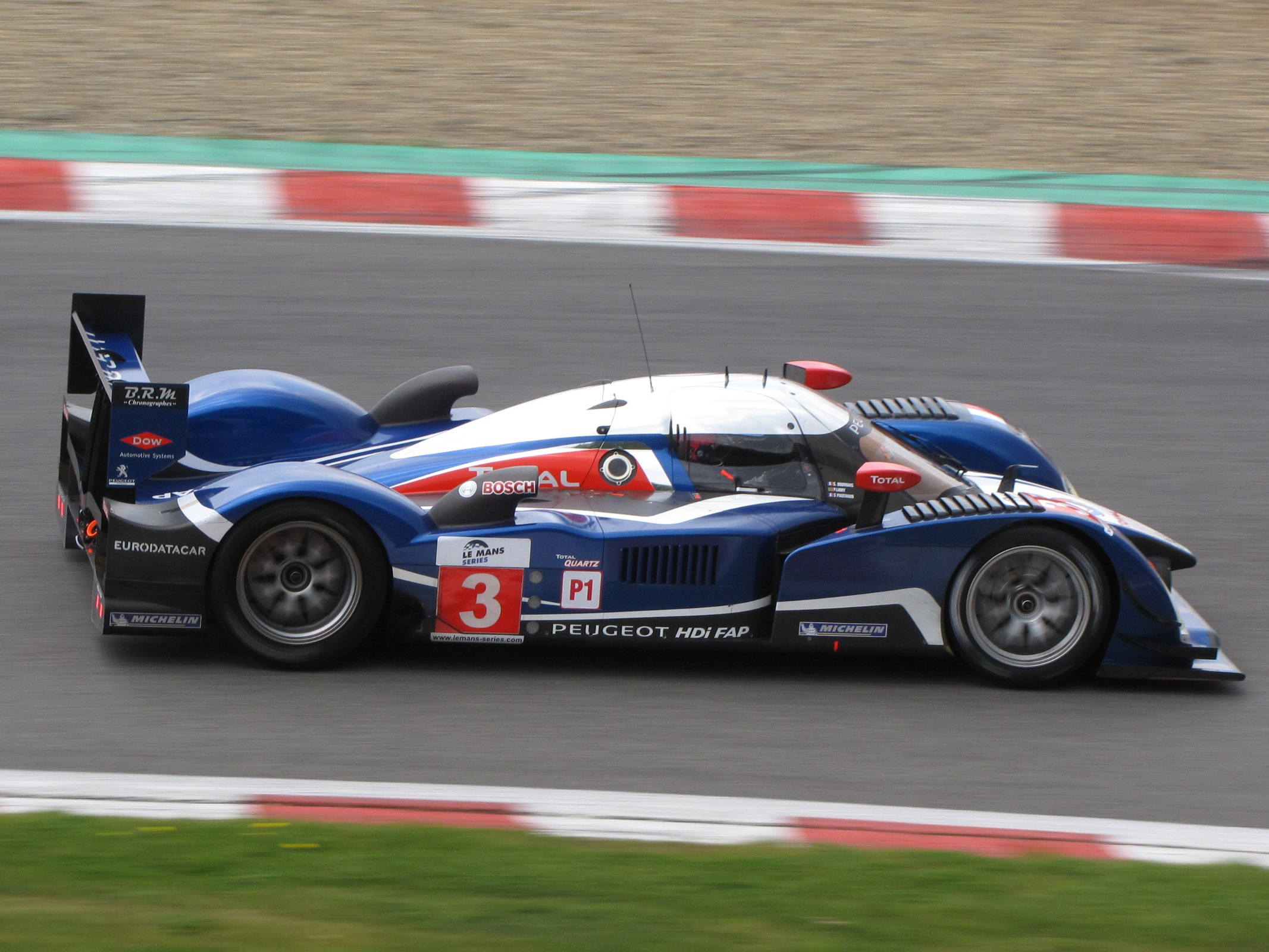 Pedro Lamy driving Peugeot 908 HDi FAP at 1000 km of Spa 2010.